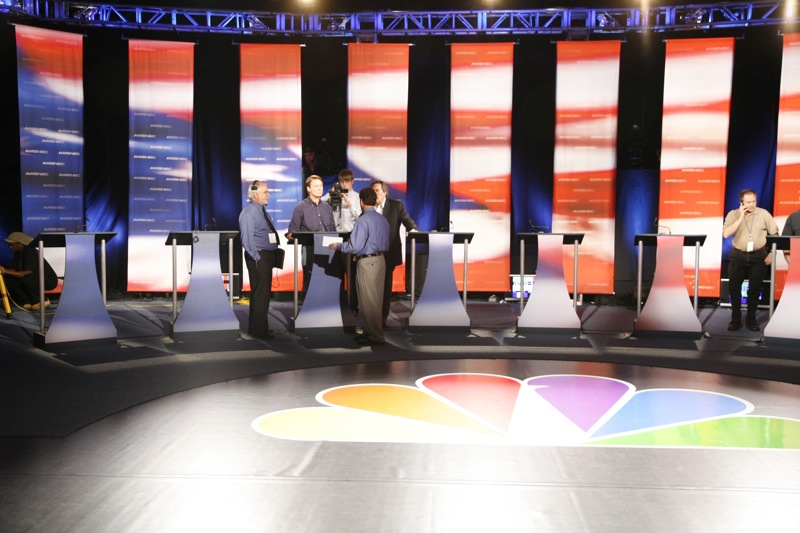 Photo by Rachel Feierman